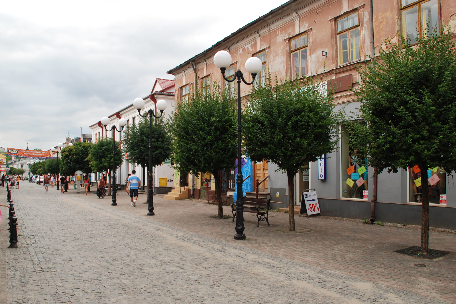 Promenade in Biała Podlaska.